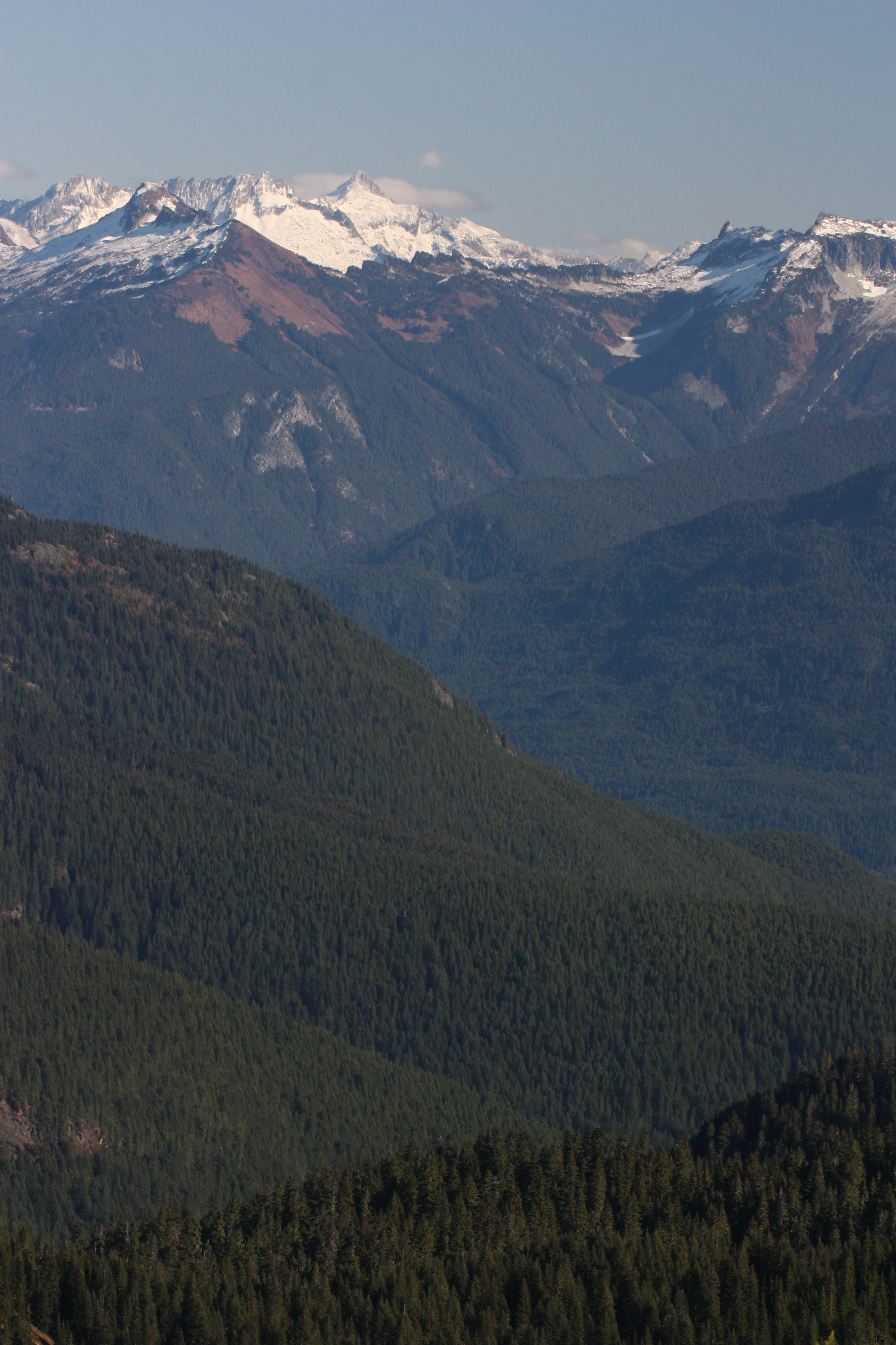 Snowfield Peak (left center skyline with cloud behind); The Needle (skyline, left of cloud); Big Devil Peak (left middle distance) Viewpoint location: Sauk Mountain Trail #613, Mount Baker-Snoqualmie National Forest Viewpoint elevation: 1624 meter (5327 ft) View direction: 70° Location source: Garmin GPSmap 60CSx Location Datum: WGS84